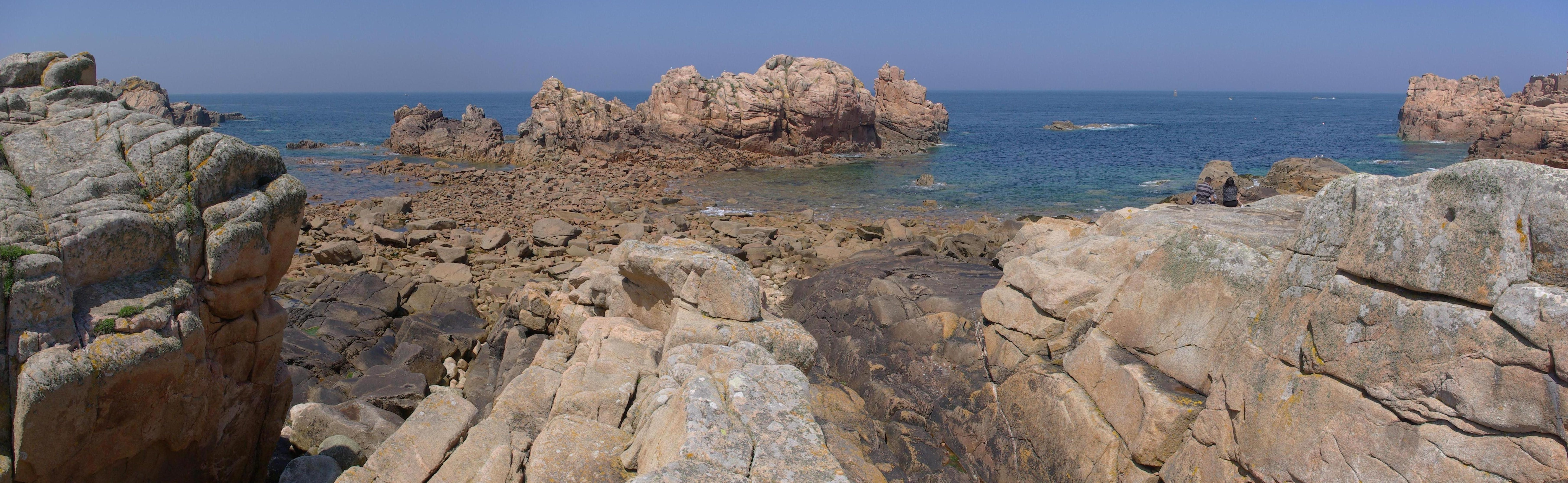 Pink granite coast, North of Île de Bréhat, Côtes d'Armor, France.